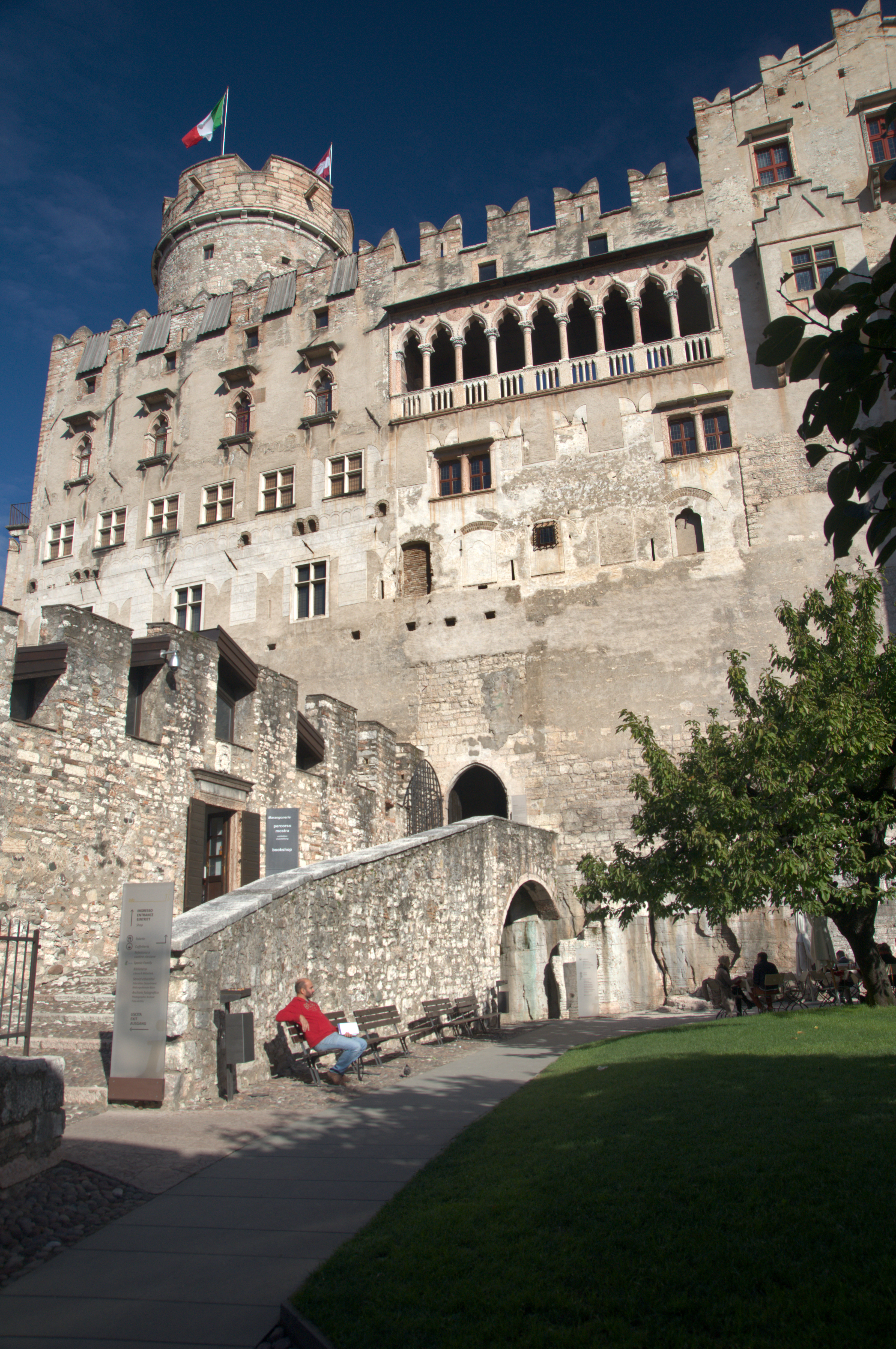 10 2014 Trento - Castle Buonconsiglio-Castelvecchio - Mastio Augusto's Tower Sodegerio da Tito - Loggia Venetian International Gothic Johannes Hinderbach - ITALY - K-5 II -Tamron AF 17-50mm F2.8 - photo by Paolo Villa FOTO8900 01